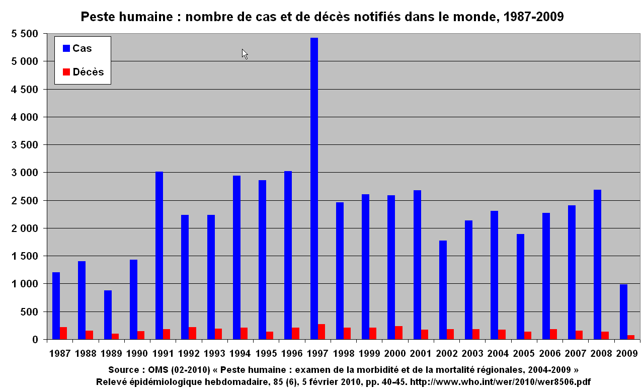 Human plague: number of cases and deaths reported worldwide, 1987–2009